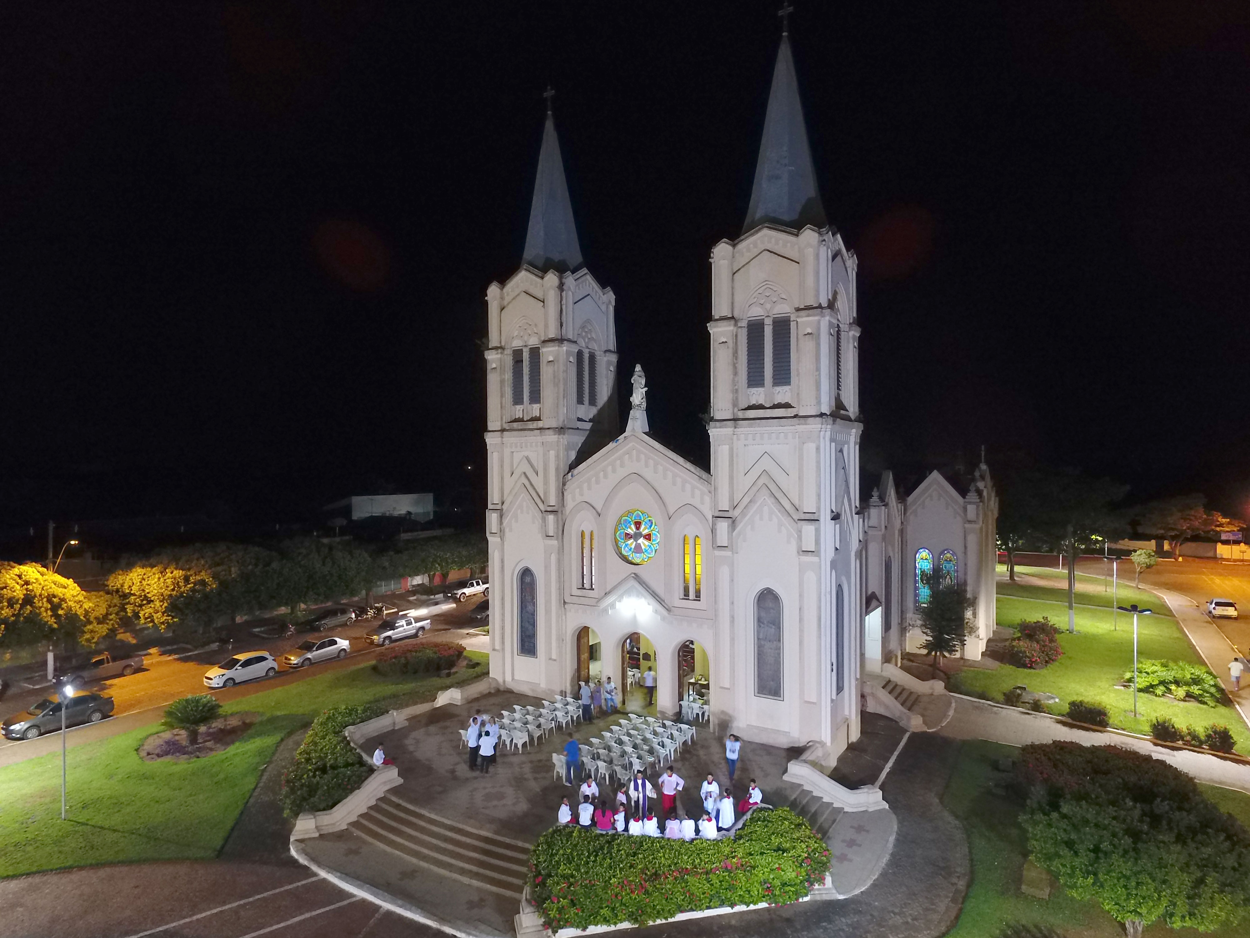 View of the historic Matriz (Cathedral) in the town of Aquidauana, Mato Grosso do Sul, Brazil. Português do Brasil: Vista da histórica Matriz (Catedral) na cidade de Aquidauana, Mato Grosso do Sul, Brasil.